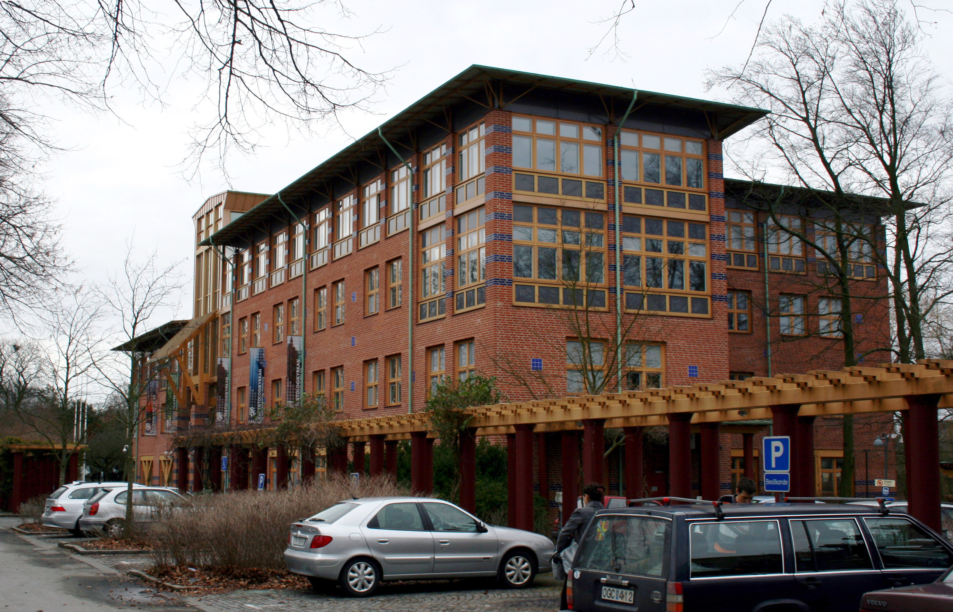 Church of Scientology Malmö, actually located in nearby Arlöv. The church purchased the property from Danisco Sugar for SEK 50 million and had a big fundraising drive, making it one of their new "Ideal Orgs".